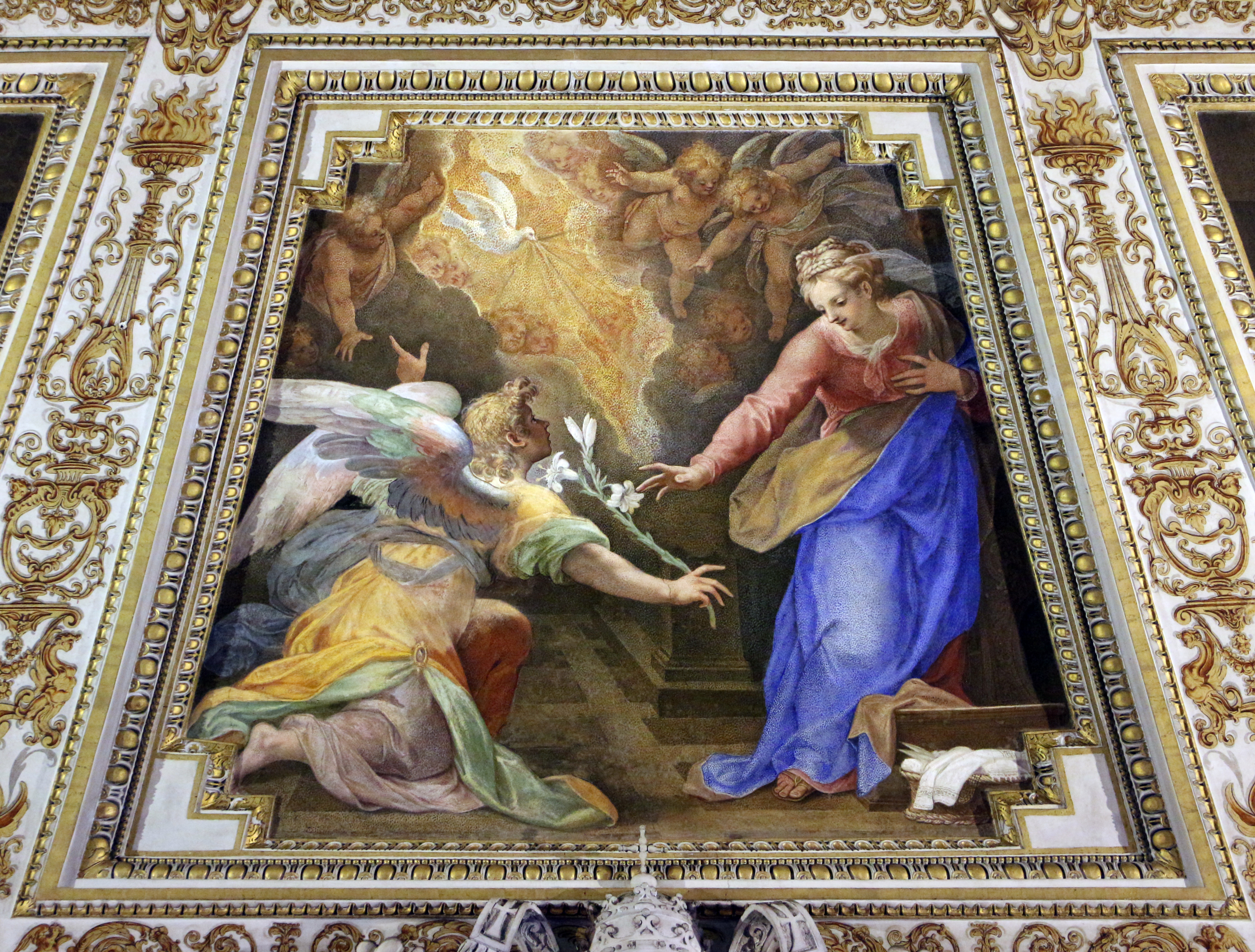 Santuario della Santa Casa (Loreto) - Pomarancio Vestry